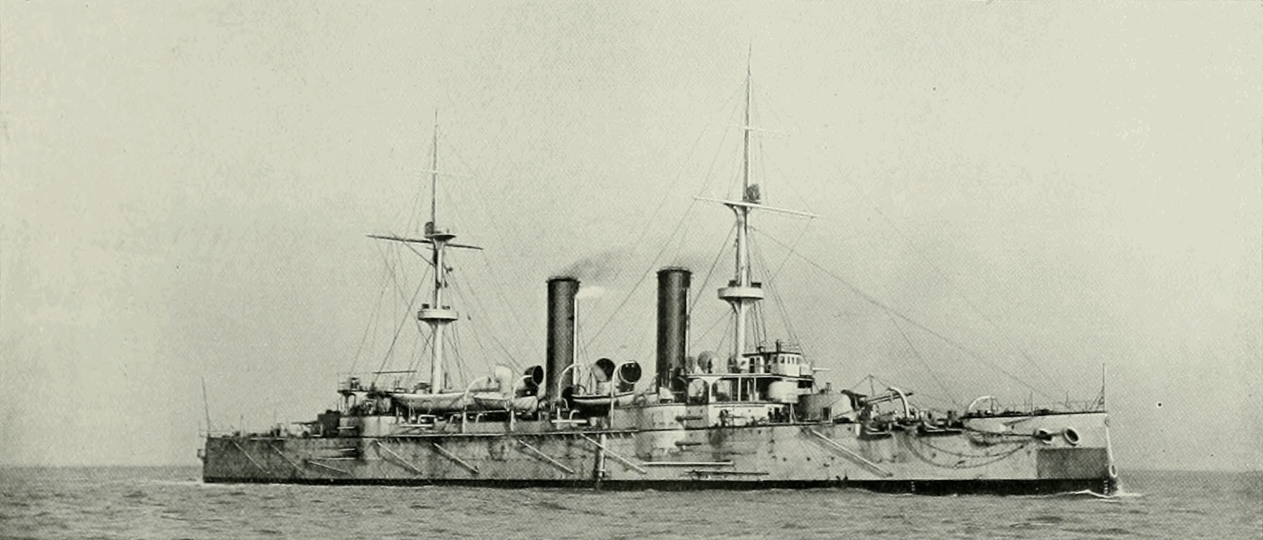 Japanese armoured cruiser Asama in 1901. The illustration was featured in the August 1902 issue of Page's Magazine, on page 171.